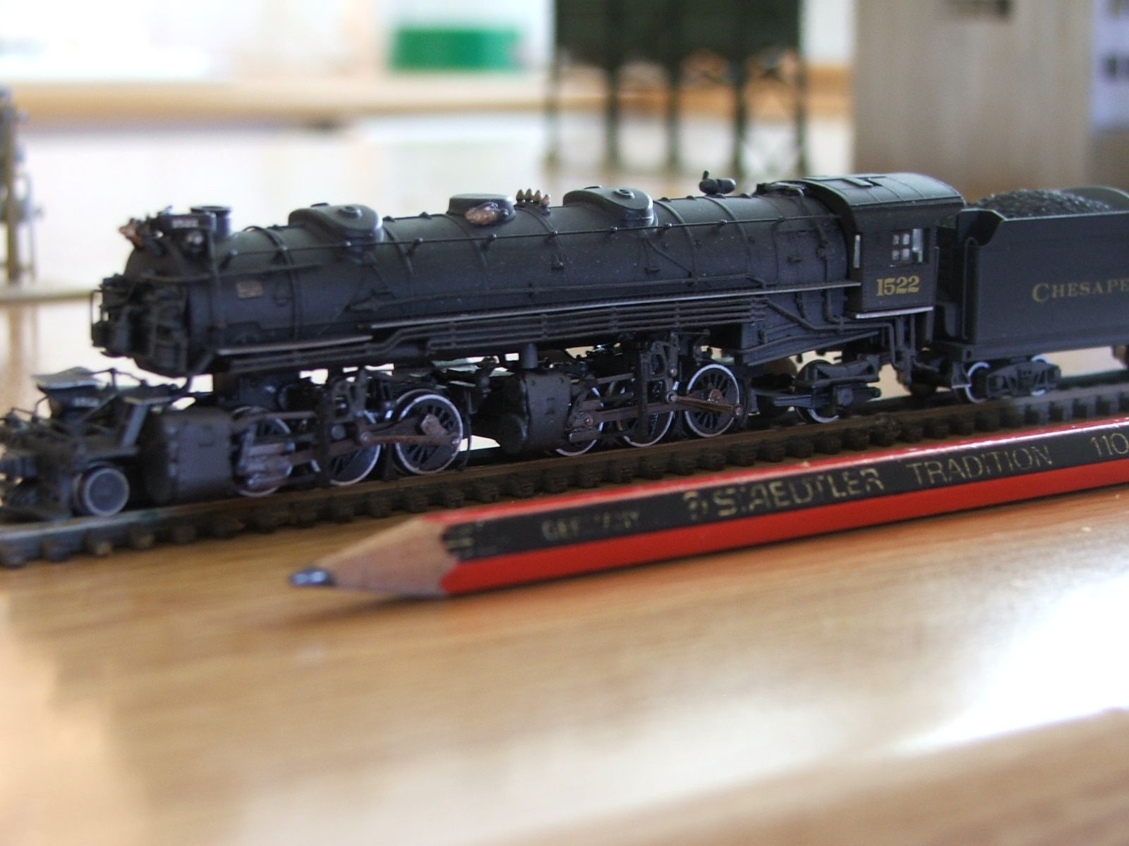 Photo of a Bachmann 2-6-6-2 N scale steam locomotive with a pencil shown for size